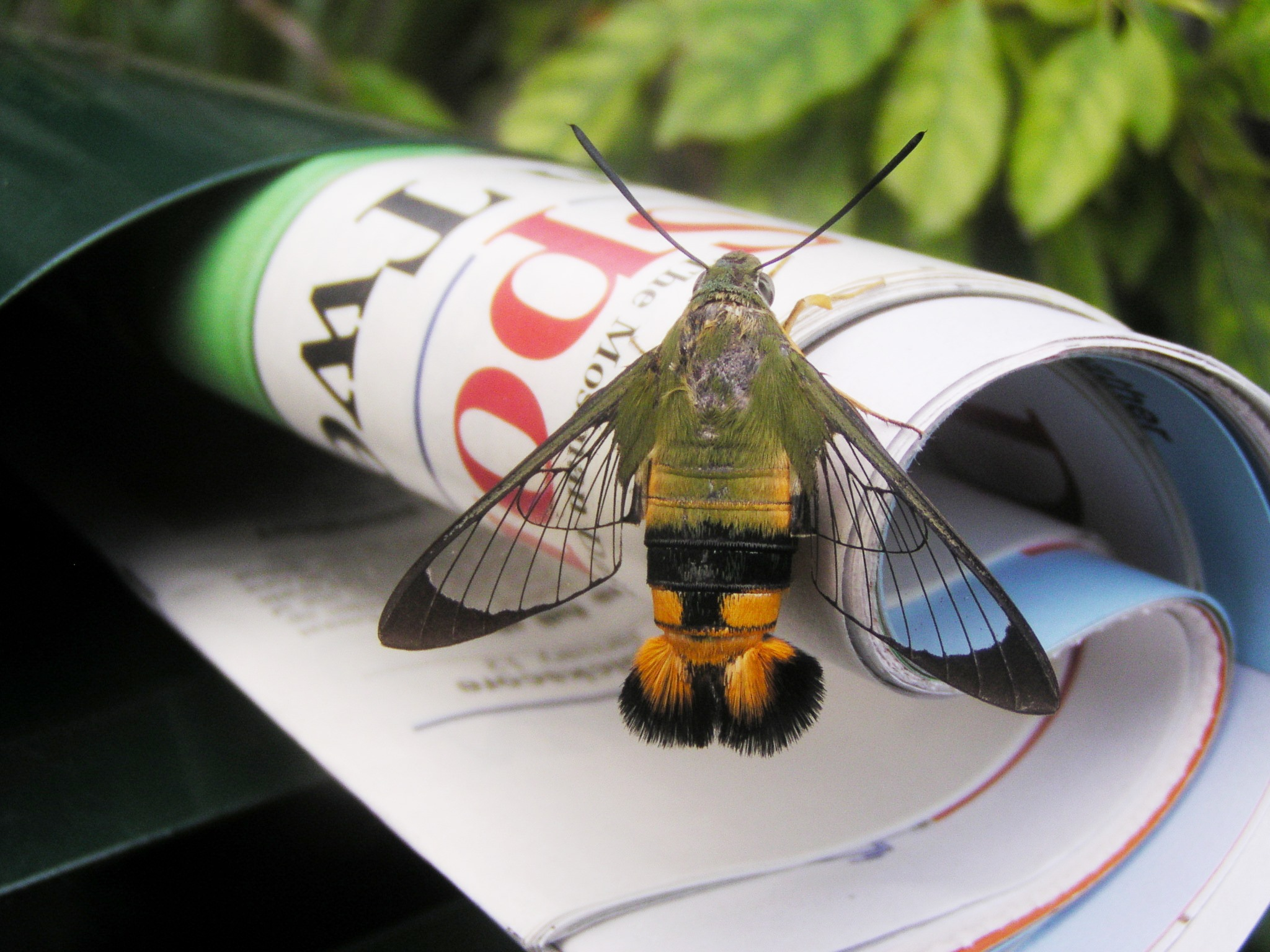 A Bee Hawk Moth, Cephonodes kingii taking a rest on the local newspaper in our letterbox Identification based on the Hawk Moth Factsheet at the Australian Museum The taxonomic reference was completed from data at University of Technology, Sydney